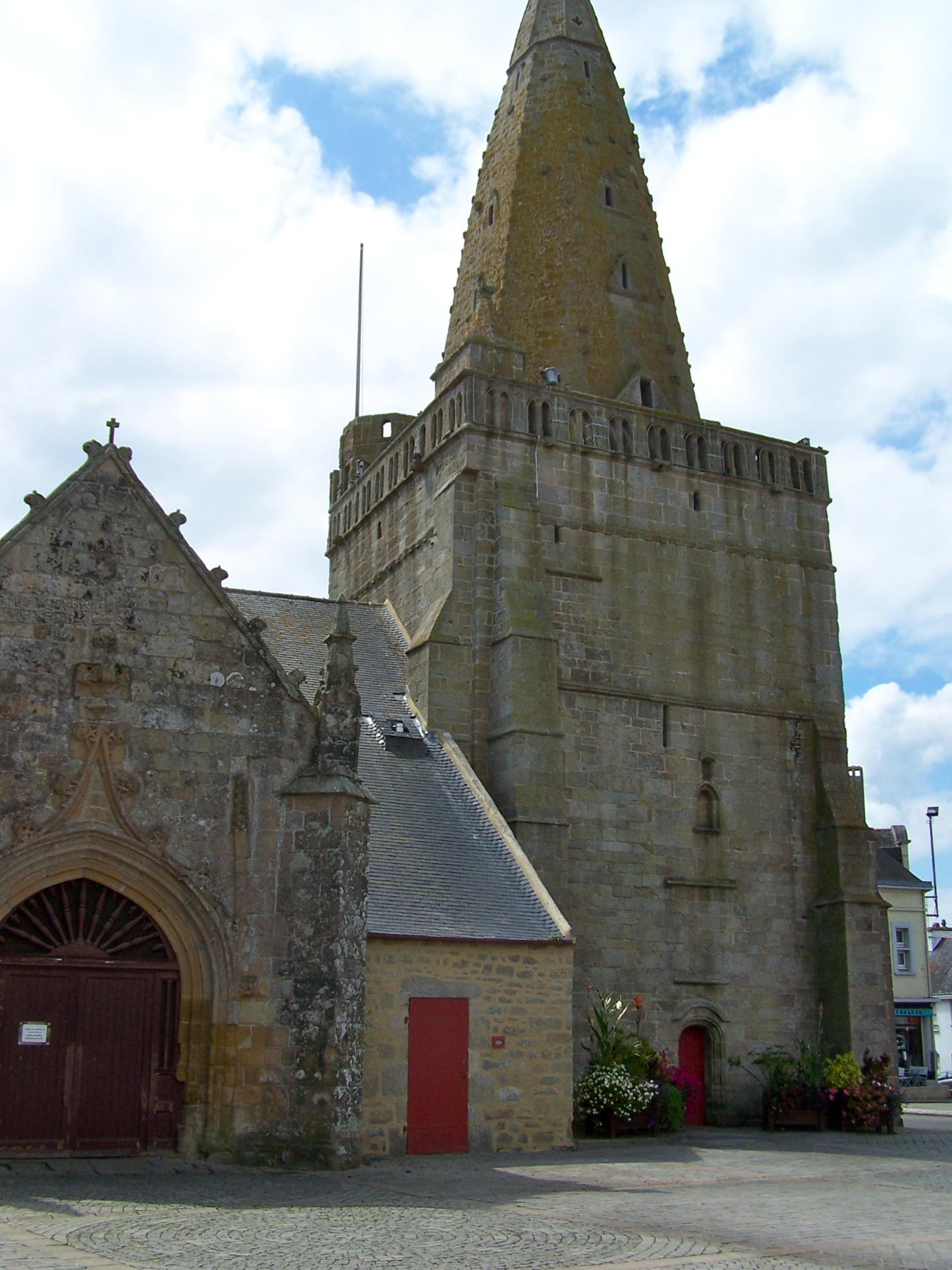 Church of Larmor-Plage, Morbihan, France